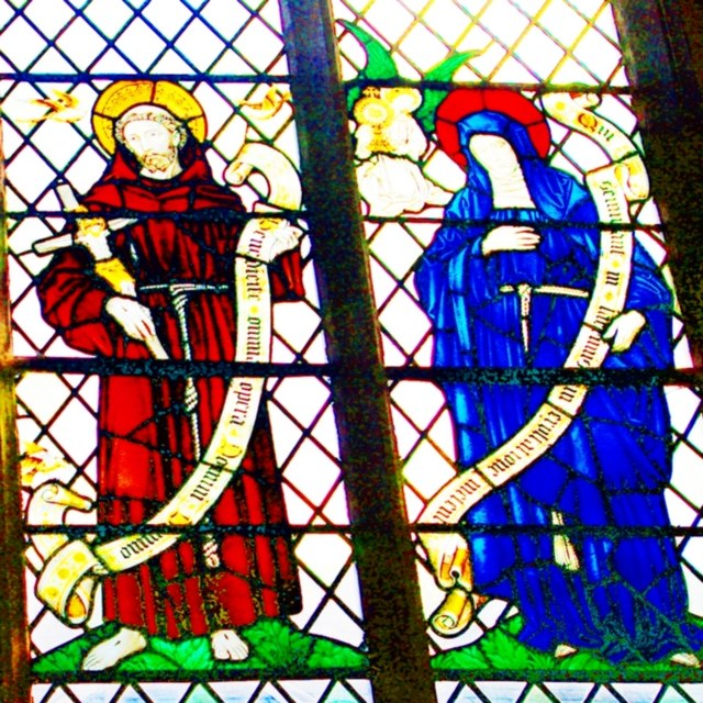 St Francis and St Monica Right-hand half of a four-light window by F.C. Eden in Little St Mary's Church in memory of Mary Hamblin Clay (1860-1929). Francis of Assisi, flanked by birds and holding a crucifix as symbol of his stigmata, quotes the opening of the deuterocanonical Morning Prayer canticle Benedicite Omnia Opera Domini Domino "O all ye works of the Lord, bless ye the Lord", a model for his own Canticle of the Sun; Monica, mother of the theologian St Augustine of Hippo, is accompanied by an angel bearing a monstrance, and her text is from the Vesper Psalm 125/126, v. 5: "Qui seminant in lacrimis in exultatione metent - They that sow in tears shall reap in joy". Mrs Clay had a special devotion to St Francis, and Monica recalls her involvement with the Mothers' Union.